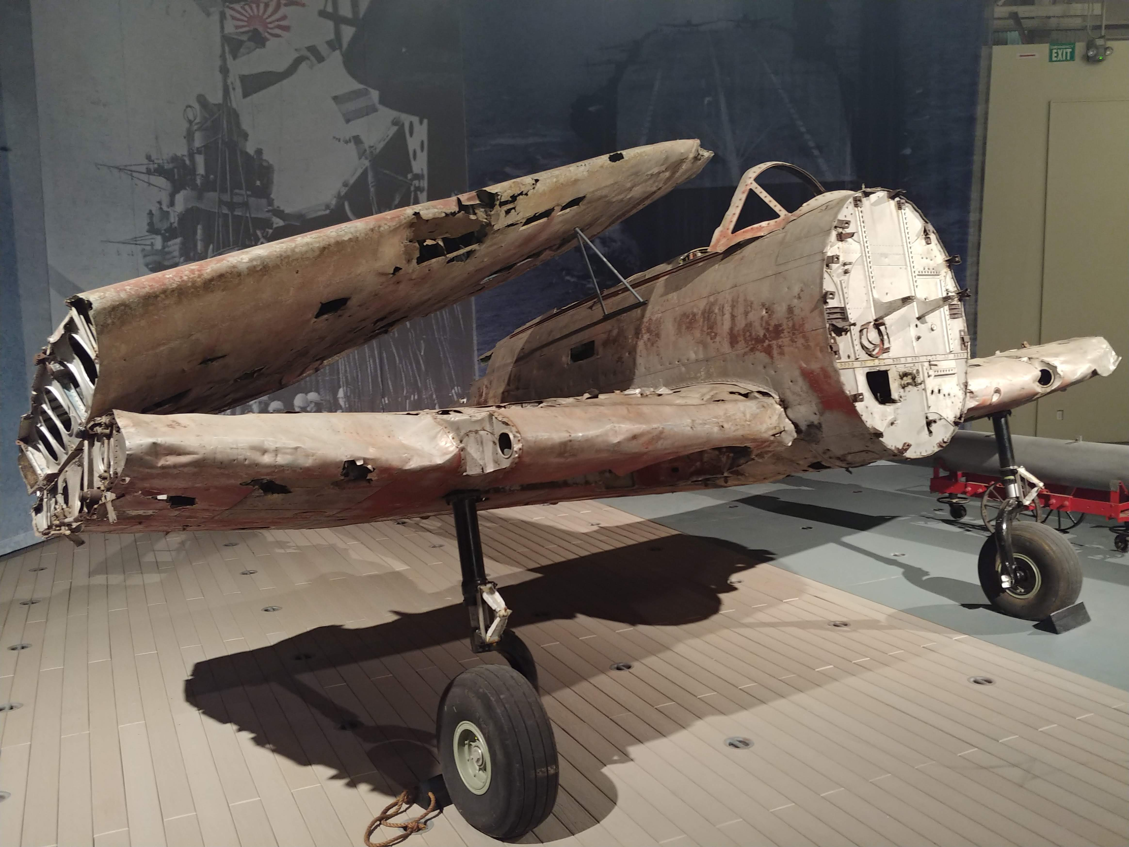 This example of a Nakajima B5N2 likely served in the Pacific Theater of WWII before being shot down or abandoned on a South Pacific island. Over the years, many parts were stripped from the plane by souvenir hunters before the wreck was acquired on behalf of the Pacific Aviation Museum Pearl Harbor (now know as the Pearl Harbor Aviation Museum) in 2016. Museum volunteers assembled together the remnants of the fuselage, wing base, and starboard wing tip, in addition to fabricating new landing gear for display purposes. The original Hinomaru symbol of the Imperial Japanese Navy is still visible on the underside of the starboard wing tip. This B5N2 reconstruction is the most intact aircraft of it's type known to still exist. The complete reconstruction was unveiled in the museum's Hangar 37 exhibit hall in 2019.